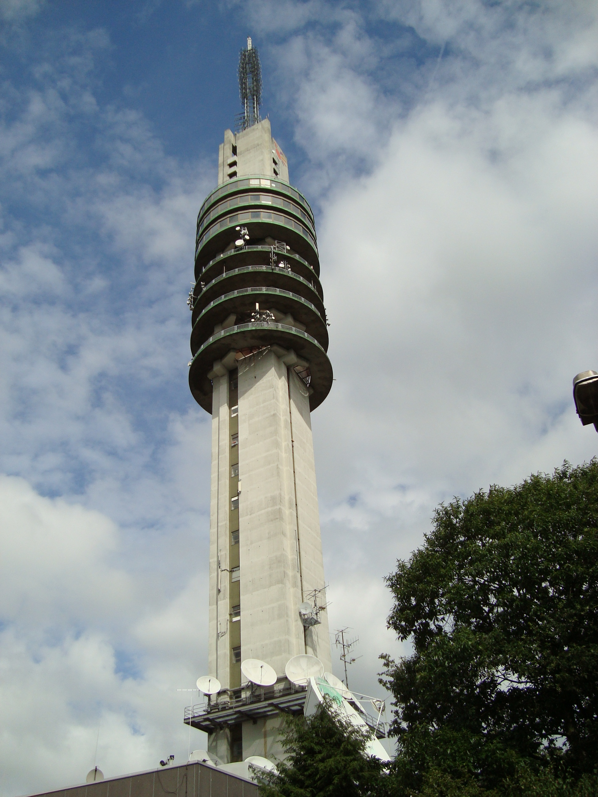 KPN radio tower Hilversum